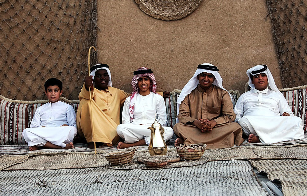 Kish Native Anthropology House, [ photos by Mehrnews] Kish Native Anthropology House (translated aslo as :Kish Indigenous Anthropology House) is an early 1800s built house of Shahin bin Abdullah, An Iranian Arab Pearl Trader in the 20th-century, located on Safein, Kish Island, Iran. The structure which is 1,200 meters in area, turned to an Anthropology museum on March 29, 2014. Official website